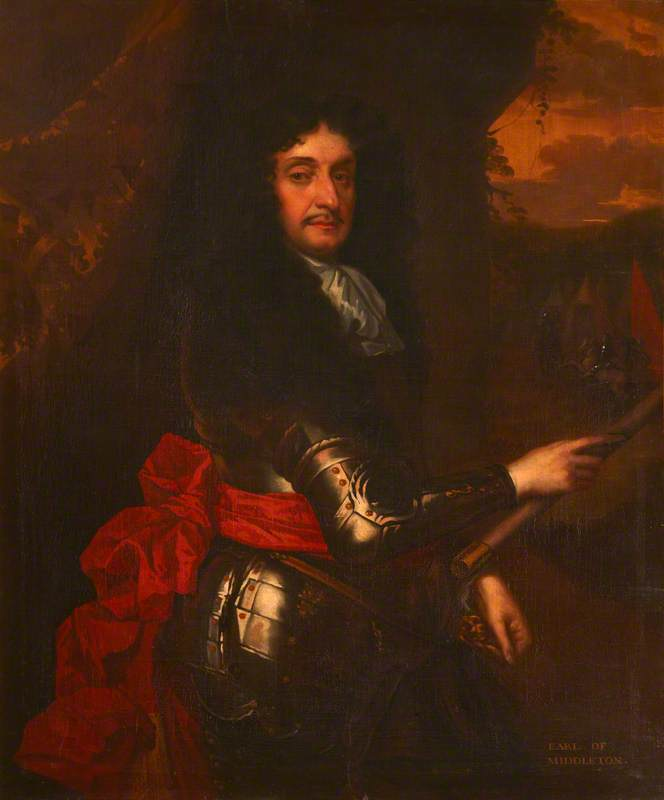 Portrait of John Middleton (c.1608–1673), 1st Earl of Middleton, Governor of Tangier (1608-1674)